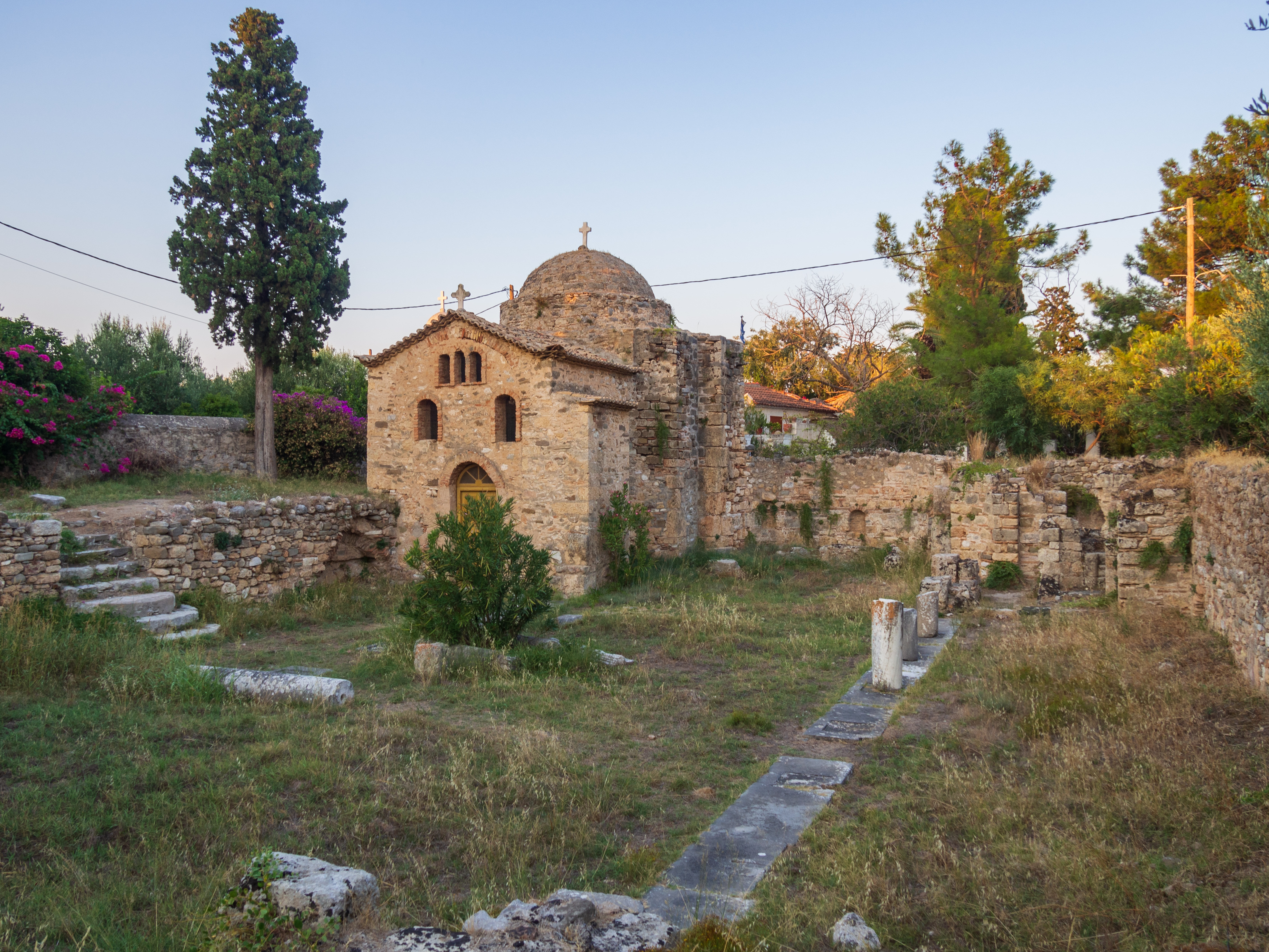 The church of Holy Wisdom and the temple of Apollo, Koroni, Greece«Κάστρο Κορώνης»